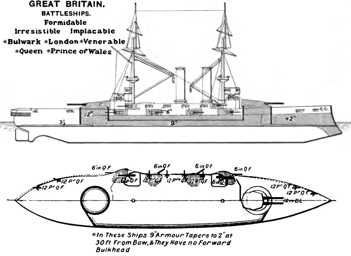 Right elevation and deck plan depicting British Formidable class battleship. Top diagram (right elevation) shows armour thickness in inches. Bottom diagram (deck plan) shows gun sizes in inches.